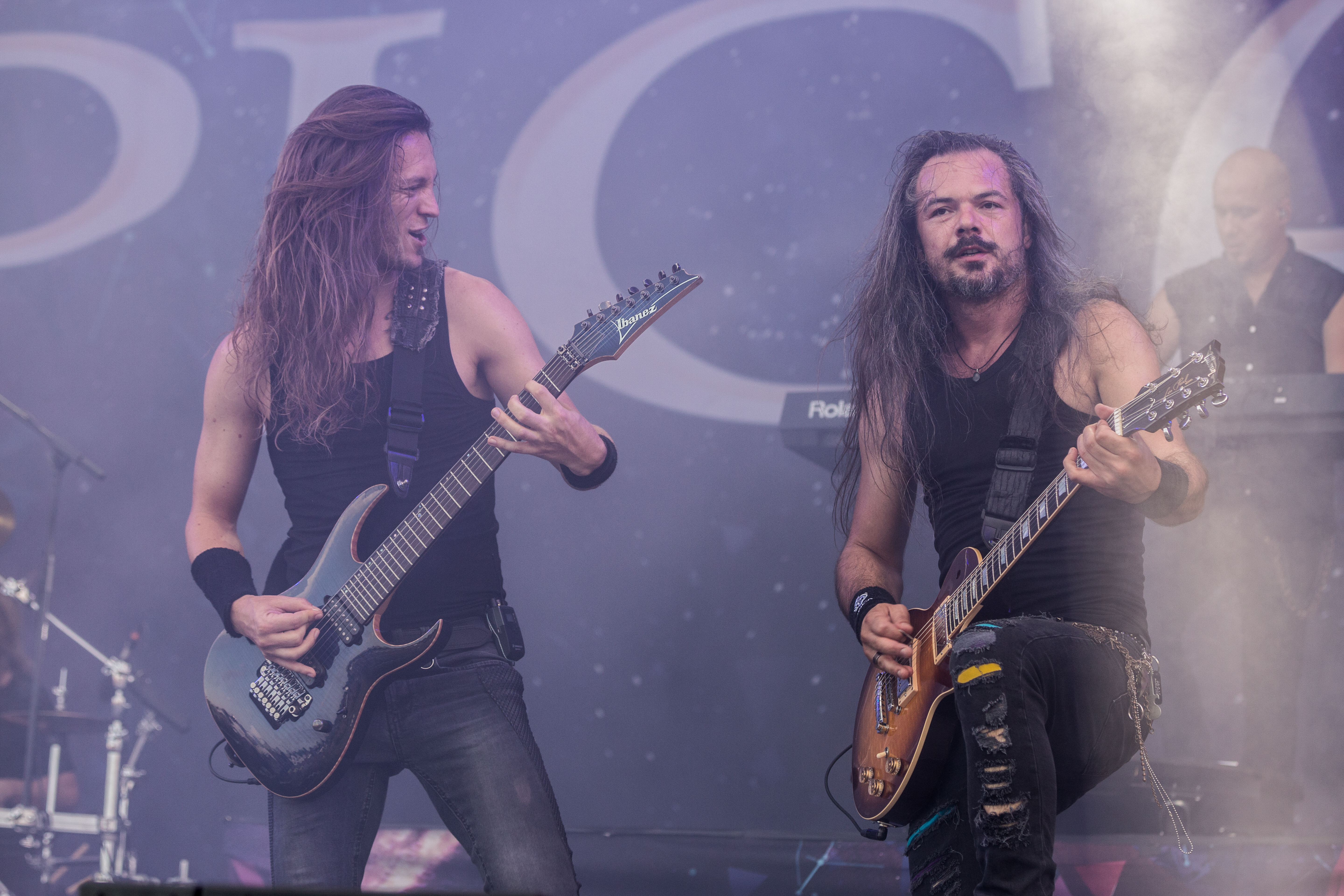 The Dutch symphonic metal band Epica at the Summer Breeze Open Air 2017 in Dinkelsbühl/Germany.